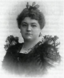 Anna Koester Jerzmanowska - wife of Erazm Jerzmanowski